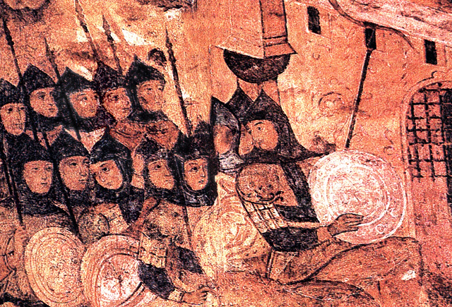 The Rus under the walls of Tsargrad. Detail from a medieval Russian icon.